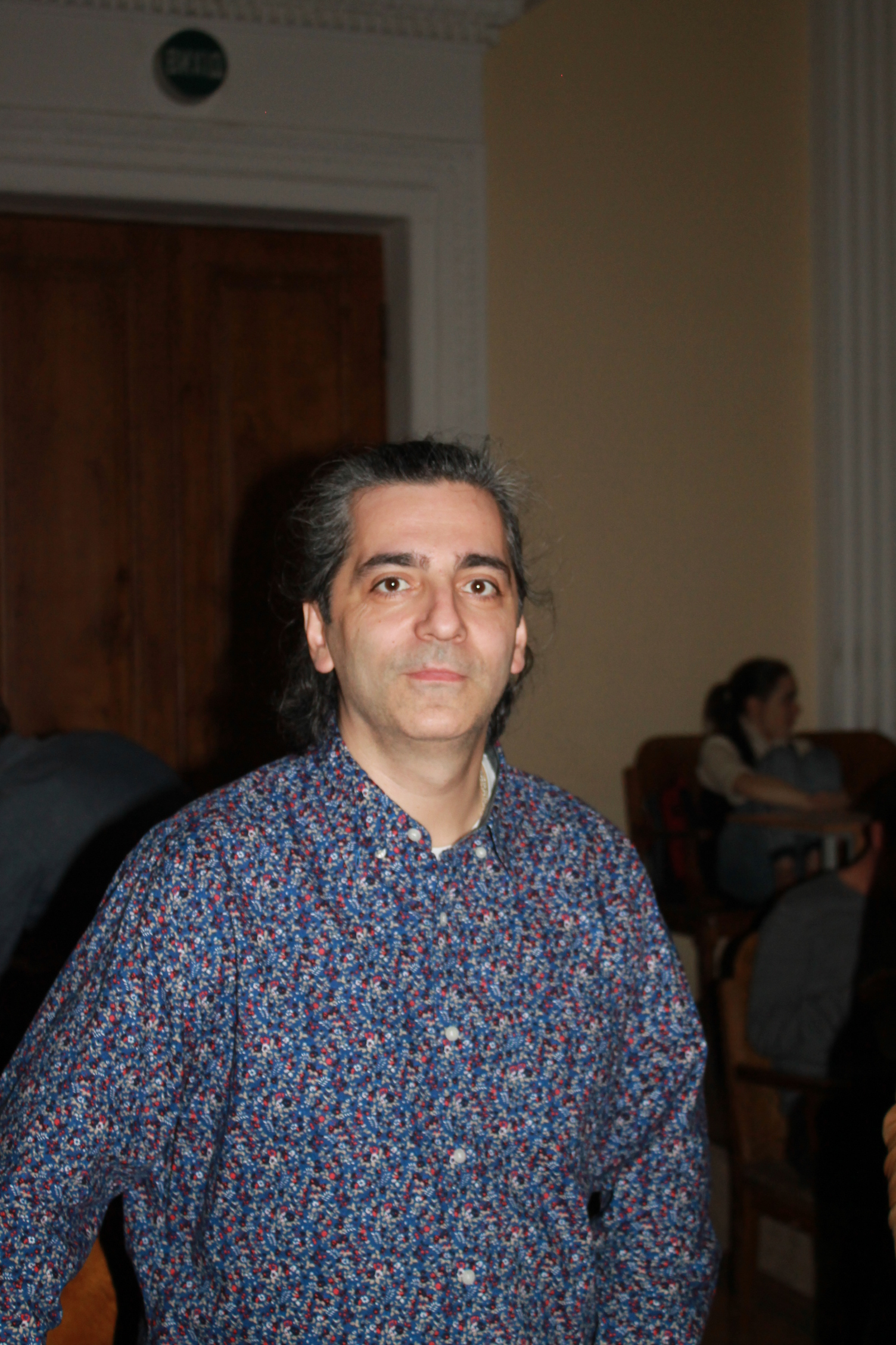 Panayiotis Kokoras in Kyiv, 2017